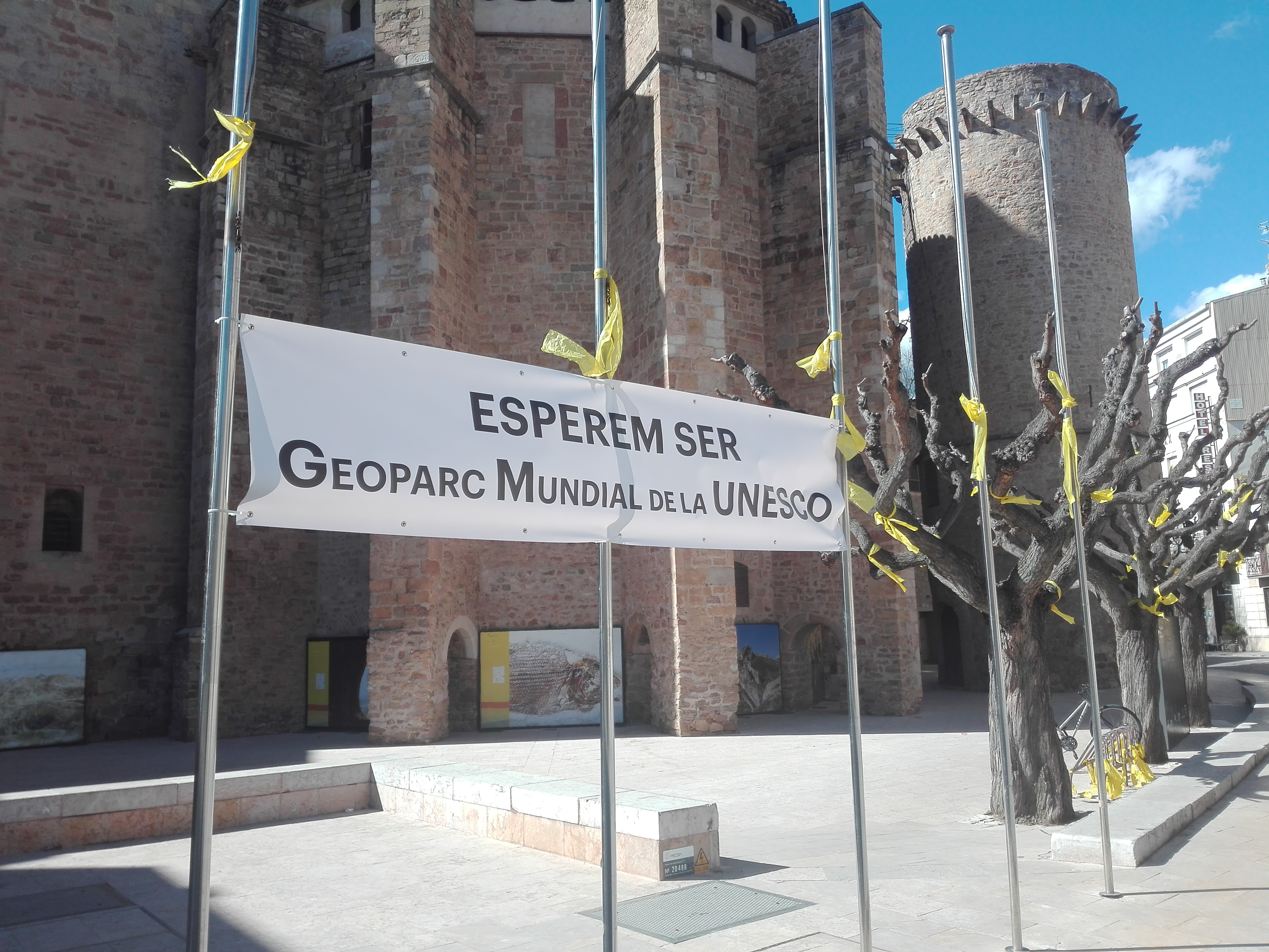 Banner for the Conca de Tremp-Montsec Global Geopark in Tremp.